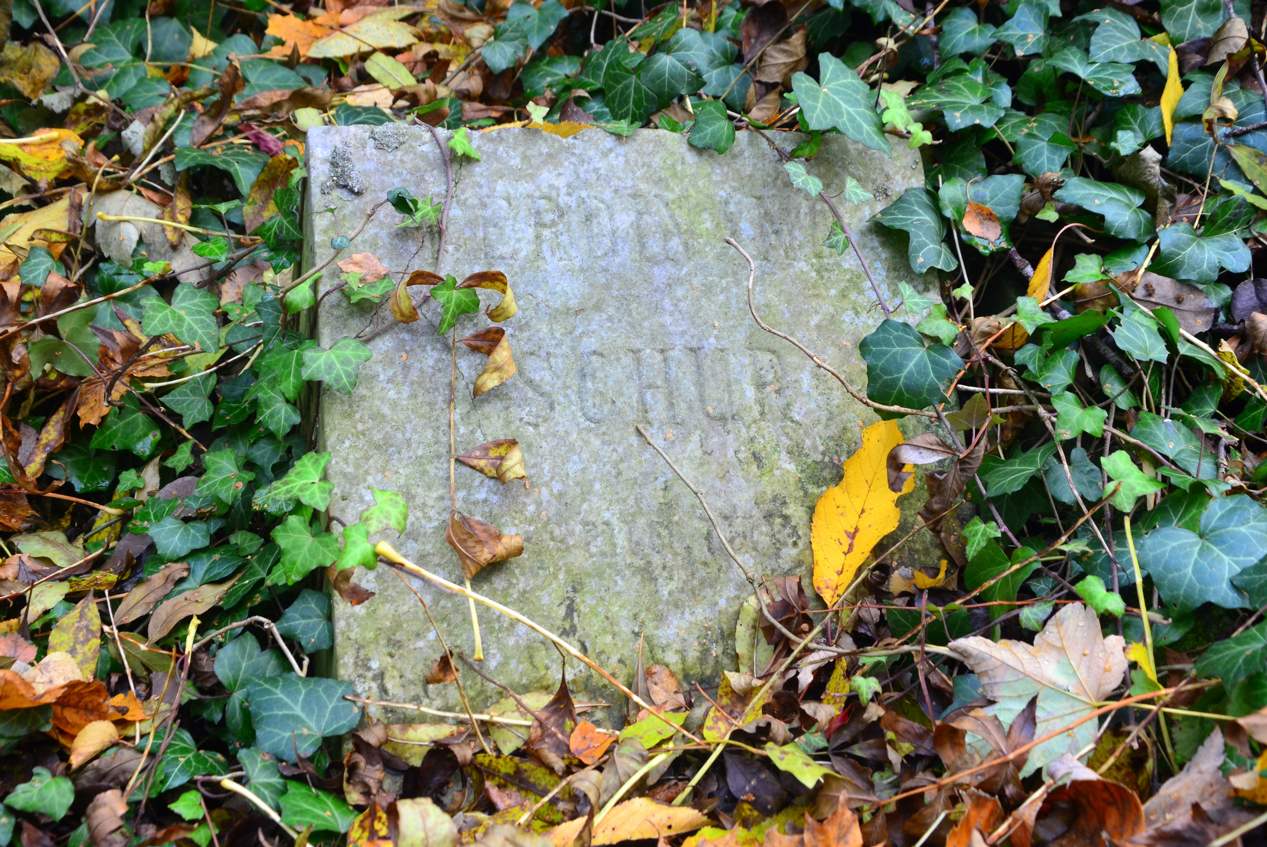 Tomb of Ferdinand Schur